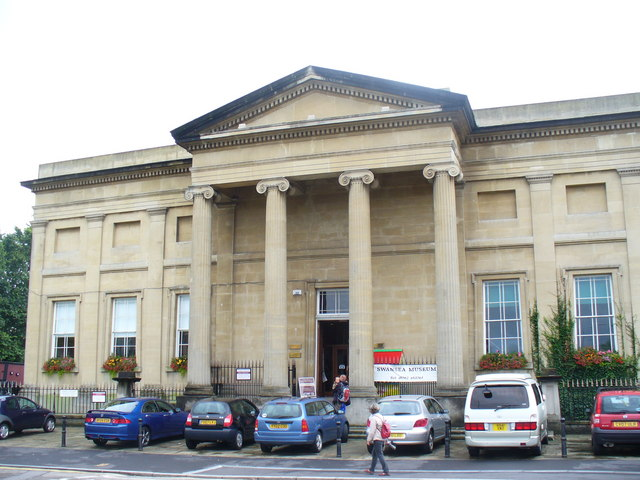 Swansea Museum, near to Swansea/Abertawe, Great Britain. Wales' oldest museum is in Victoria Street. Dylan Thomas is quoted as having said that Swansea Museum is "the museum that should have been in a museum". Link